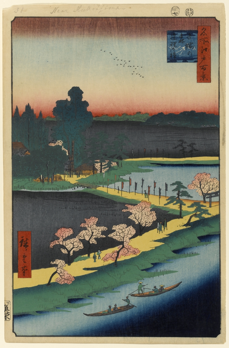 Part of the series One Hundred Famous Views of Edo, no. 031, part 1: Spring.